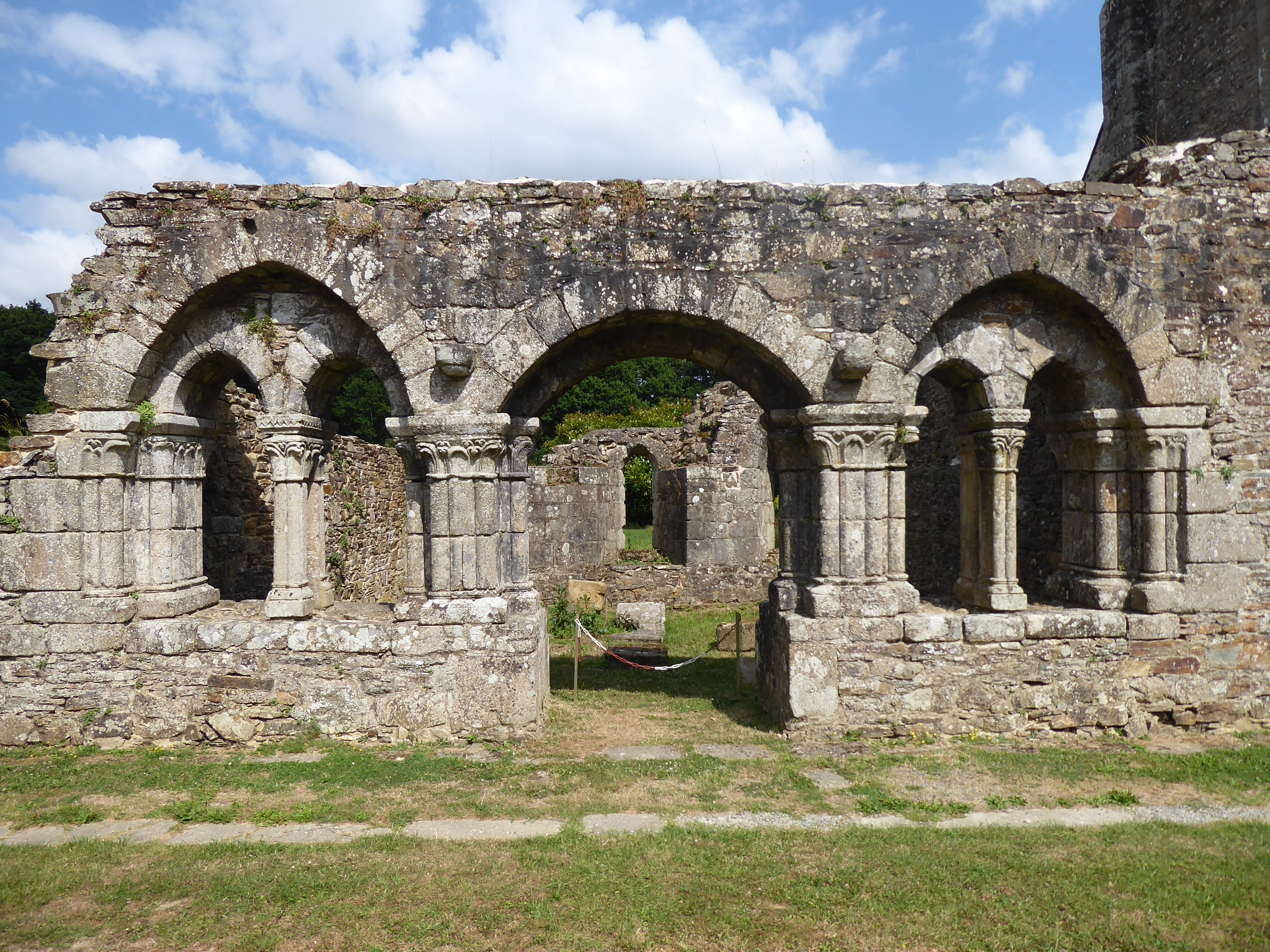 Chapter House, Abbaye de Boquen